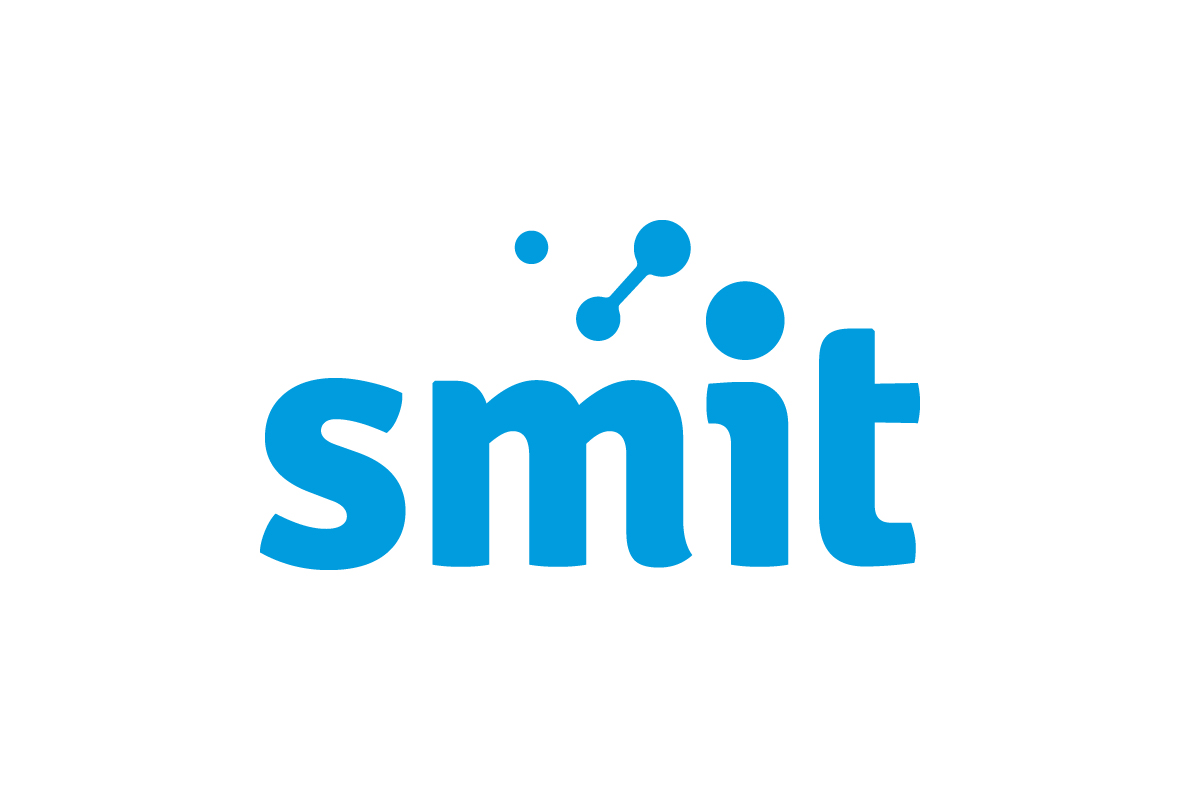 Logo of SMIT